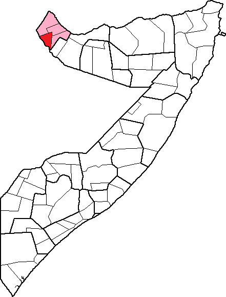 Location of the Borama district in the Awdal region, Somalia. Boundaries reflect those endorsed by the Republic of Somalia in 1986.